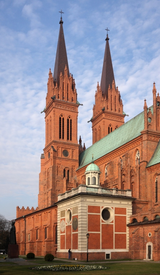 Włocławek Cathedral